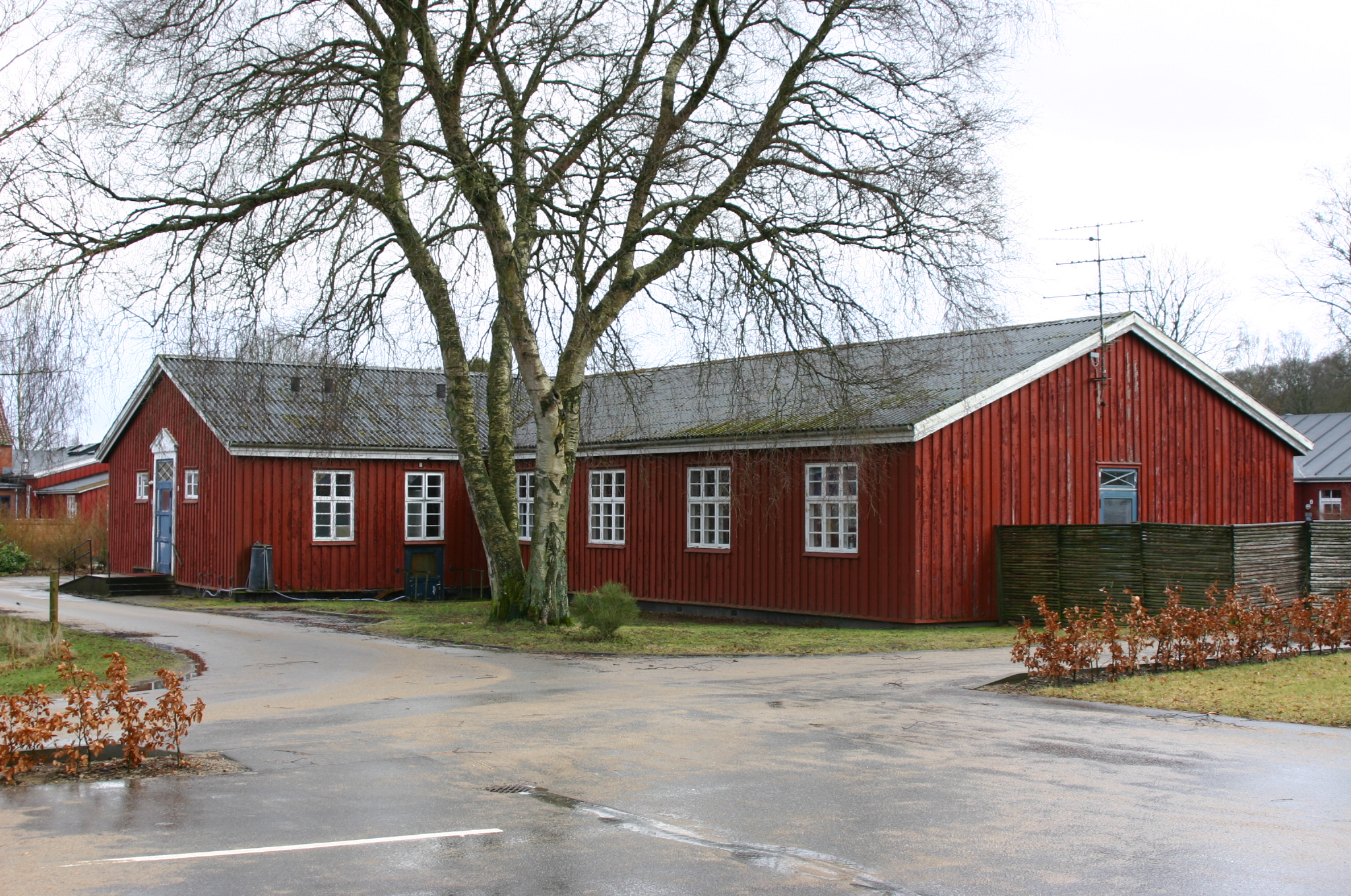 Hut of old POW Camp at Hald Ege, Viborg, Denmark. Barak i Folkekuranstalten, Hald Ege, Viborg